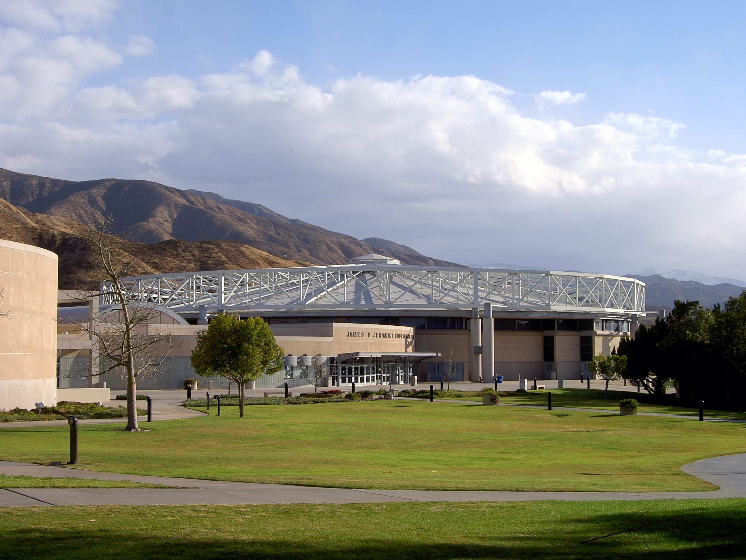 CSUSB